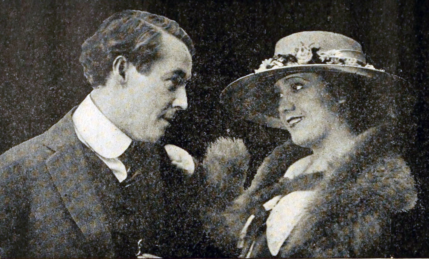 Advertisement in The Moving Picture World for The Strange Case of Mary Page (1916).